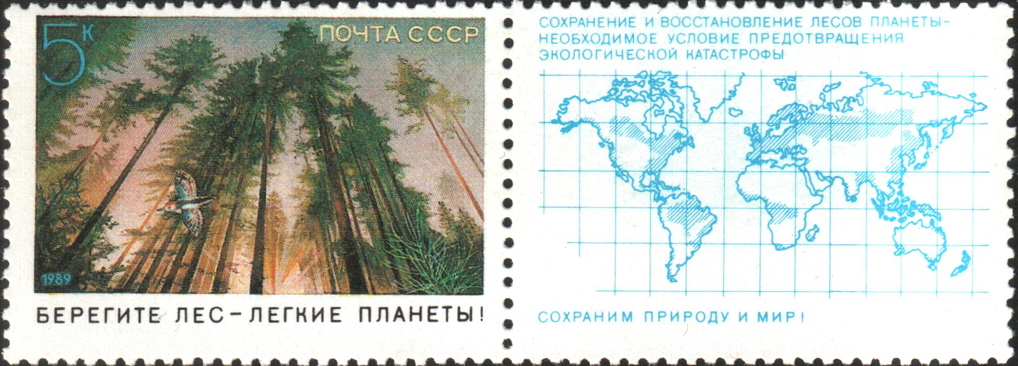 A USSR stamp, Nature Conservation; Forest protection, designer Yury Artsimenev Perf. 12 1/4 : 12 Value: 0,05